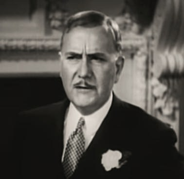 Douglas Wood in Great Guy - cropped screenshot